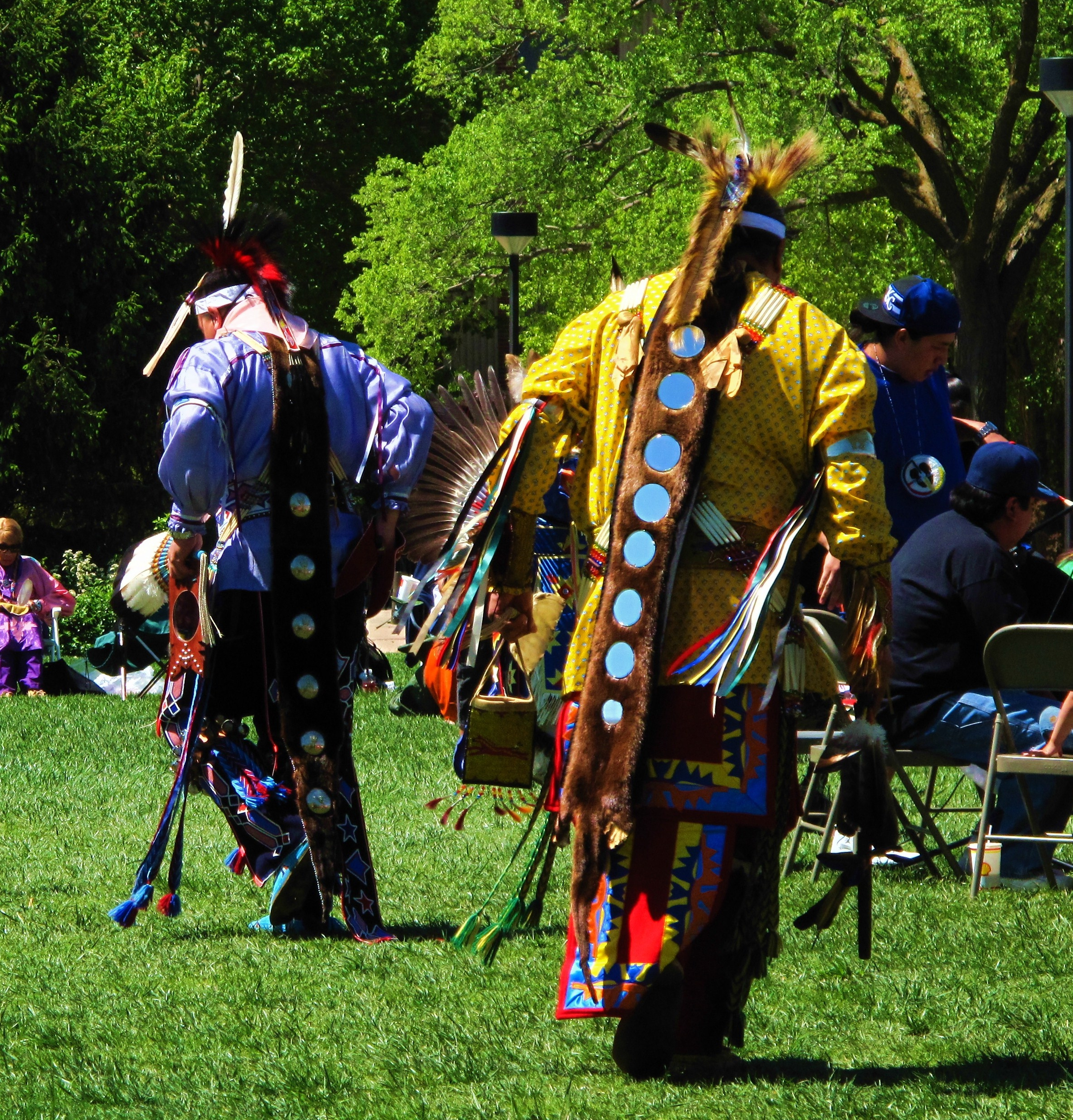 Cropped version of File:Straight Dancers Otter.jpg to focus on the Straight dancers for Straight Dance article